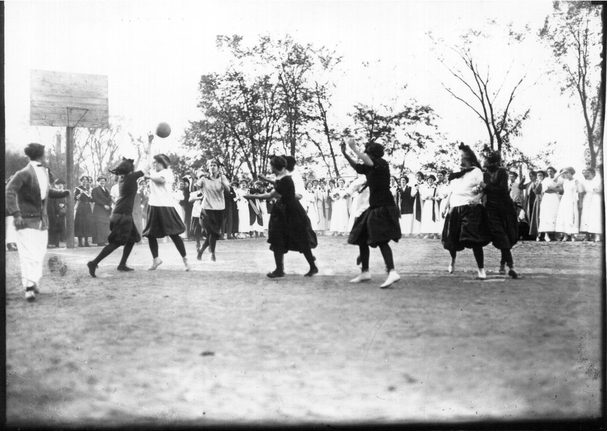 Persistent URL: Subject (TGM): Women's education; Basketball; Basketball players; Sports; Universities and colleges; Events; Location: Oxford, Ohio Women's basketball game